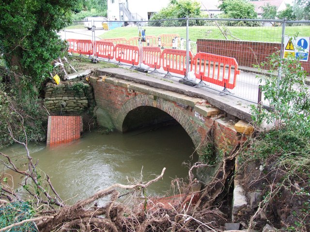 The downstream side of the bridge This is the remains of the bridge over the River Isbourne following the floods caused by the heavy rain on Friday 20th July 2007. The bridge parapet has been washed away, part of it can be seen in the river.